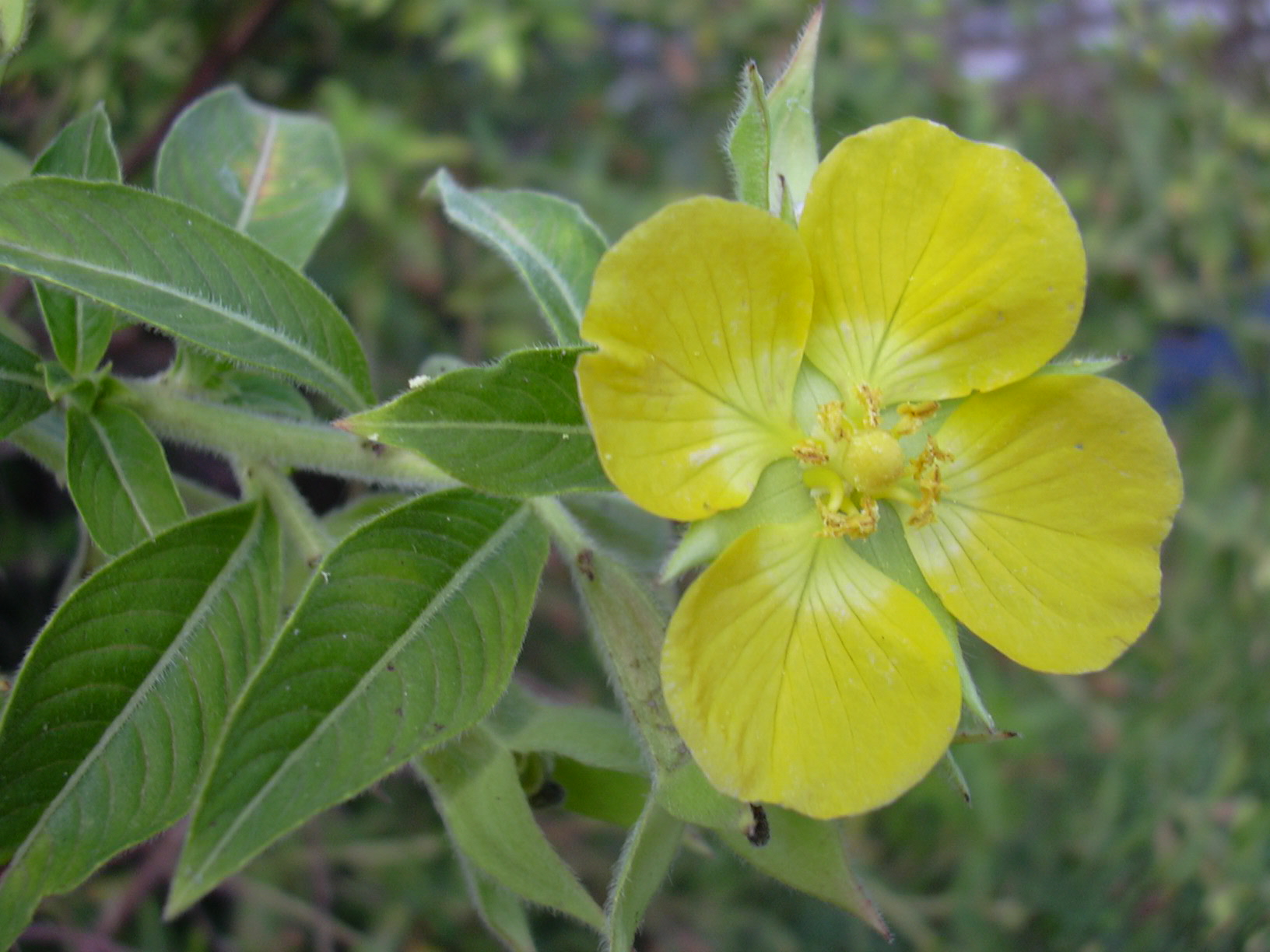 Ludwigia peruviana (flower). Location: Florida, Sarasota